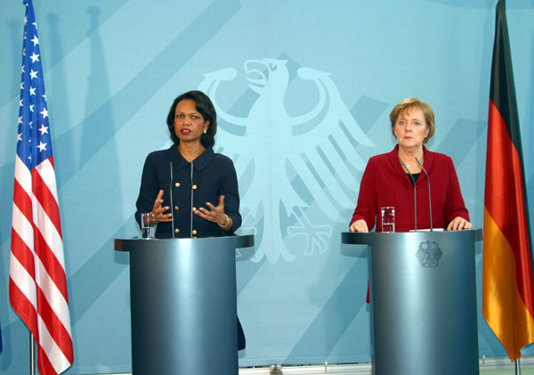 Bundeskanzlerin Angela Merkel zusammen mit US-Aussenministerin Condoleezza Rice während einer Pressekonferenz in Berlin am 6. Dezember 2005. Originaltext: Secretary Rice and German Chancellor Angela Merkel during their press conference in the Chancery building in Berlin, Tuesday, Dec. 6, 2005. Secretary Rice is traveling to Germany, Romania, Ukraine and Belgium December 5-9, 2005. Her visit will highlight the enduring importance of transatlantic relations and U.S. efforts to partner with Europe to address common challenges around the globe.